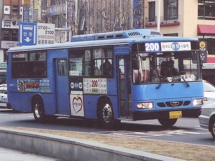 Transit Bus in Seoul City (Blue Bus) Company:unknown Use:transit bus Car manufacturer:Daewoo Bus type:BS106 Location:in Jongno-gu, Seoul City, South Korea Scanned from negative color print